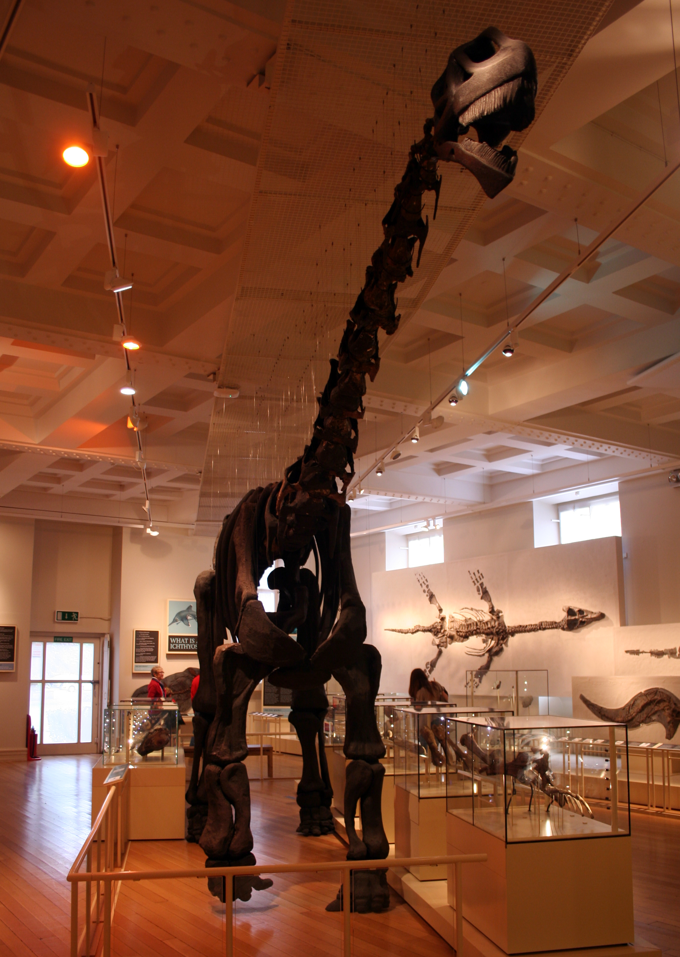 Cetiosaurus oxoniensis, "Rutland Dinosaur". New Walk Museum, Leicester. Tuesday, 17 July, 2012